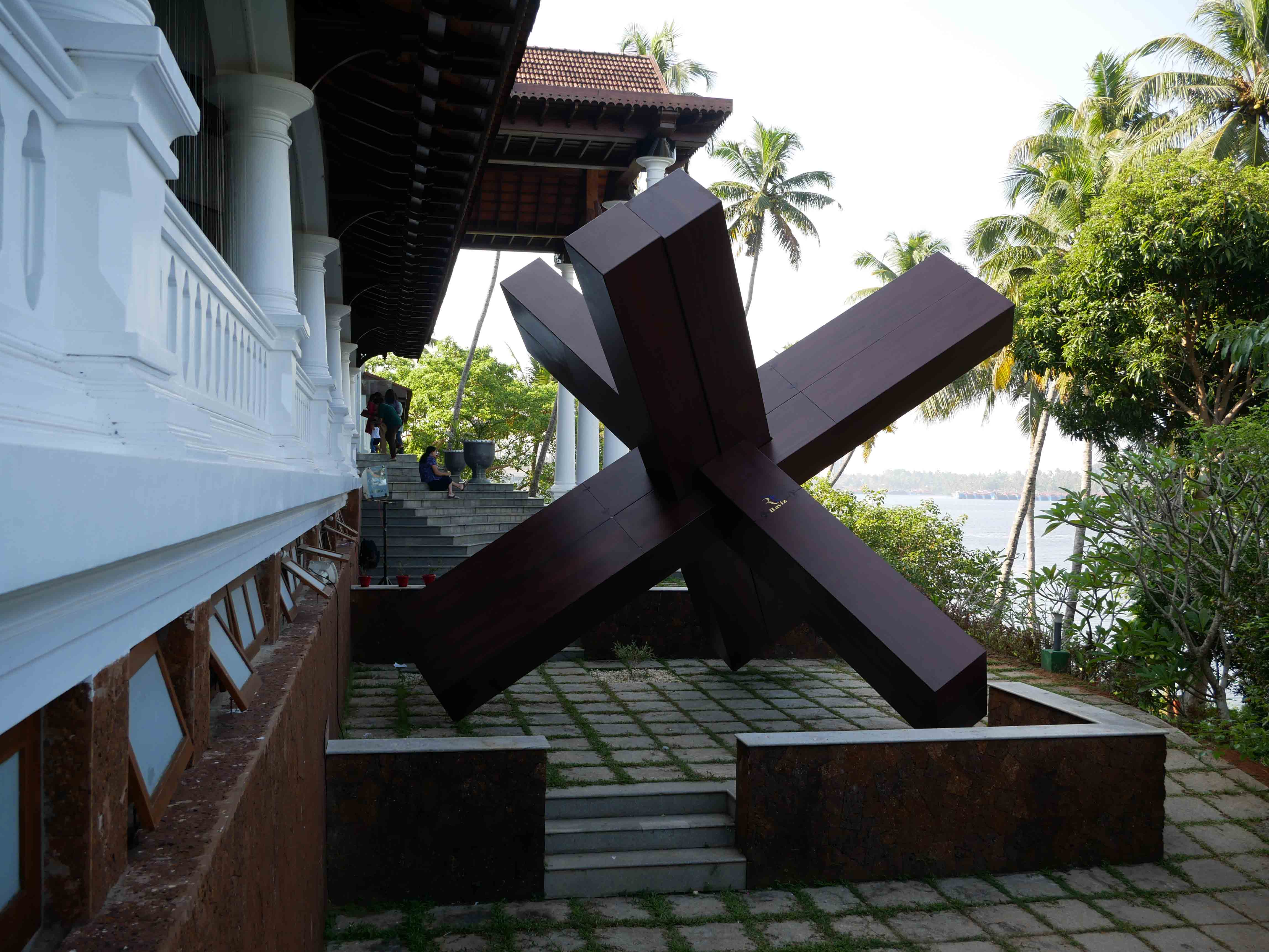 WORLD'S LARGEST DEVIL'S KNOT (EDAKOODAM) made by Rajasekharan